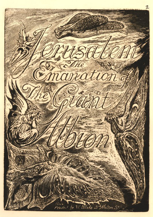 William Blake, Plate 02 Jerusalem (copy A)